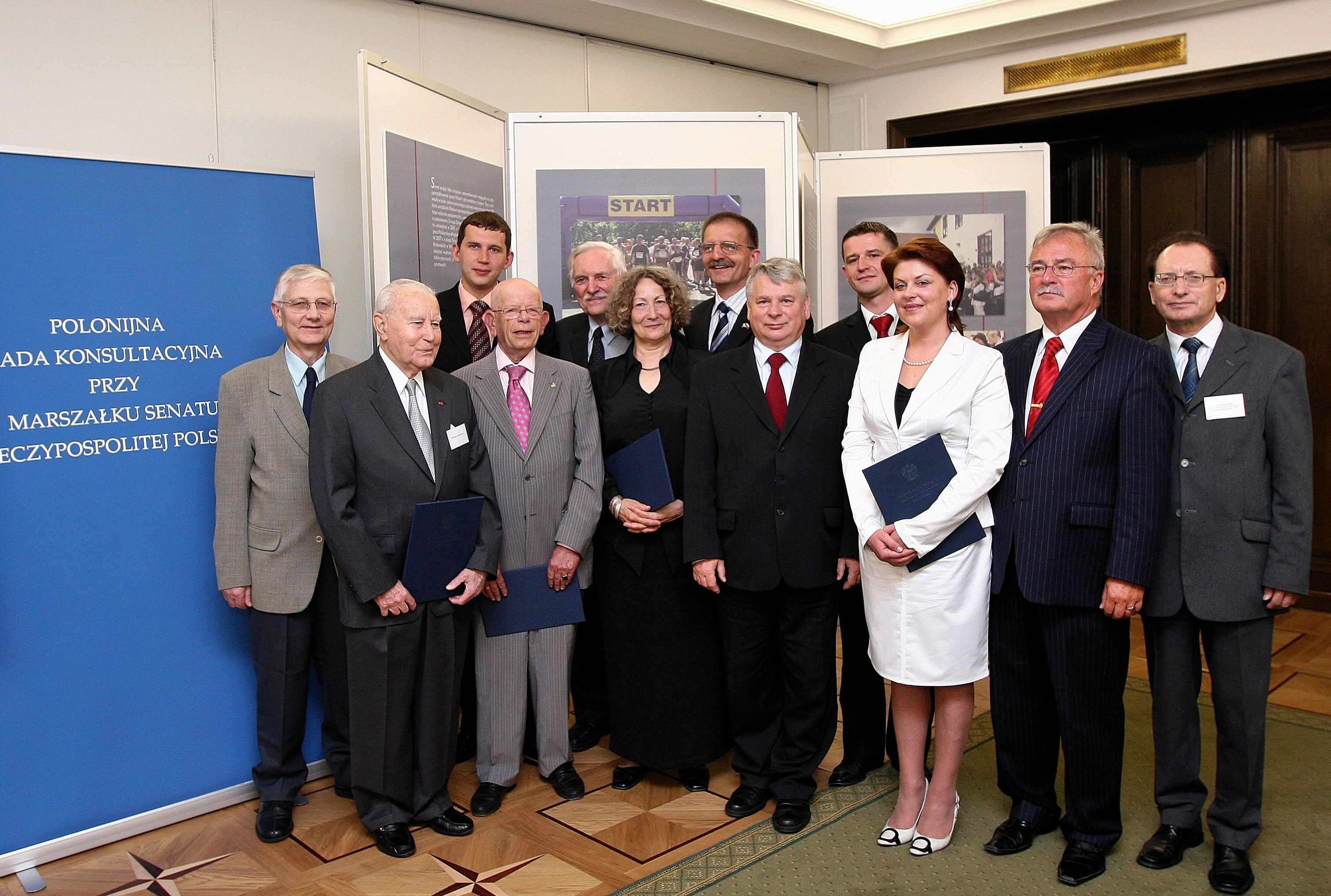 Members of Polonia Advisory Council affiliated to the Marshal of the Senate of the Republic of Poland